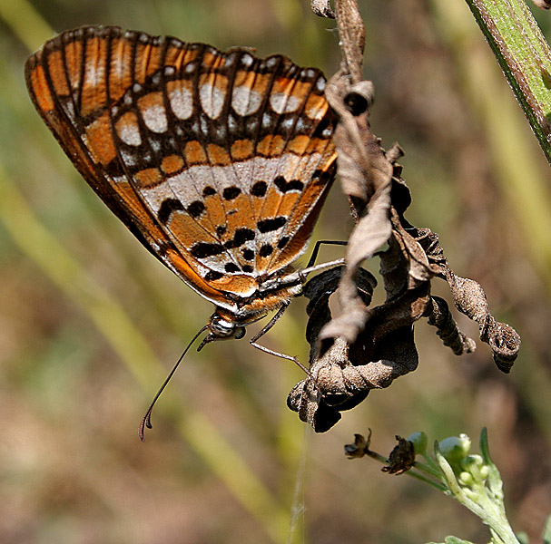 Byblia ilithyia - Joker- in Manjira Wildlife Sanctuary, Andhra Pradesh, India.